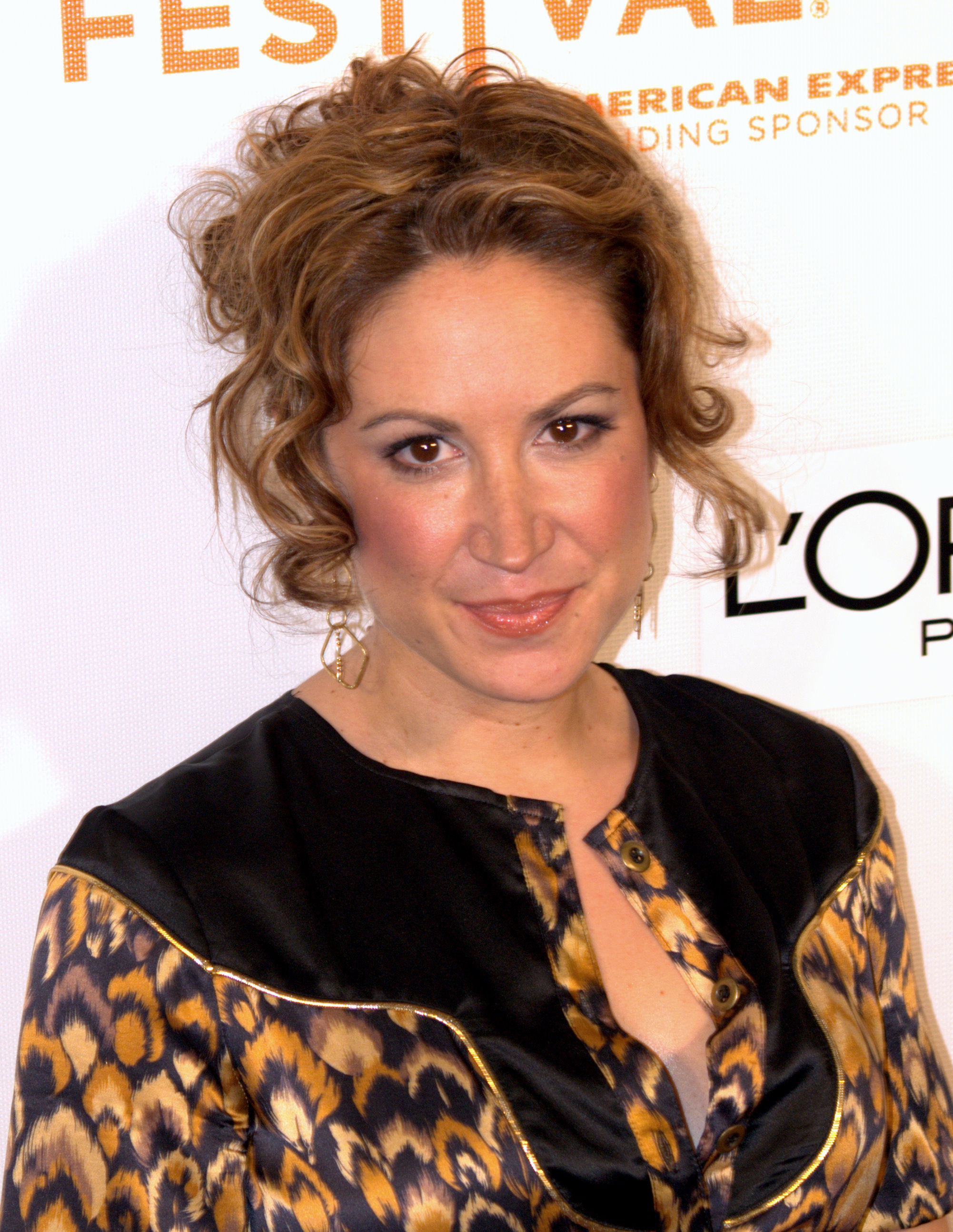 Dana Parish at the 2009 Tribeca Film Festival premiere of Serious Moonlight.